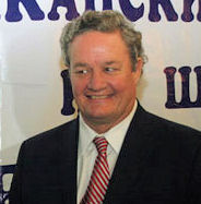 North Dakota Lieutenant Governor Jack Dalrymple in Astana, Kazakhstan in 2006. Dalrymple was leading a delegation of six agricultural equipment manufacturers from North Dakota to the 9th annual AgroProd Expo Exhibition in Kazakhstan.